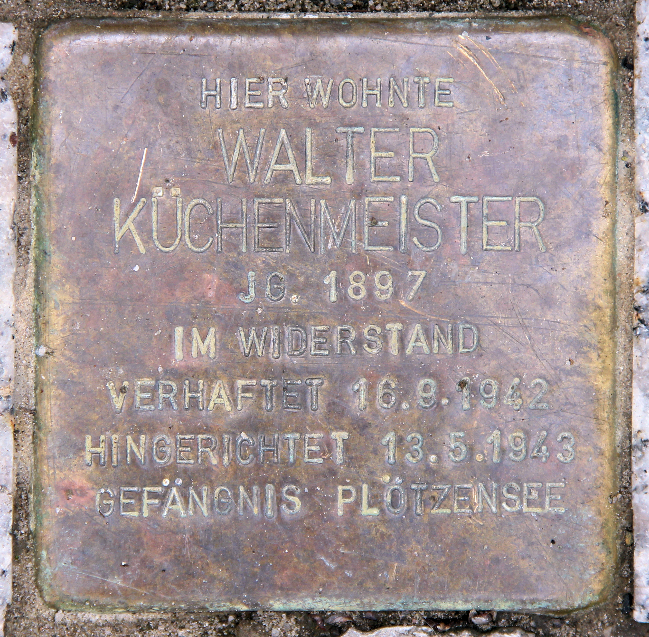 "Stolperstein" (stumbling block), Walter Küchenmeister, Sächsische Straße 63a, Berlin-Wilmersdorf, Germany Koordinate:52°29′44″N 13°19′5″E / 52.49556°N 13.31806°E